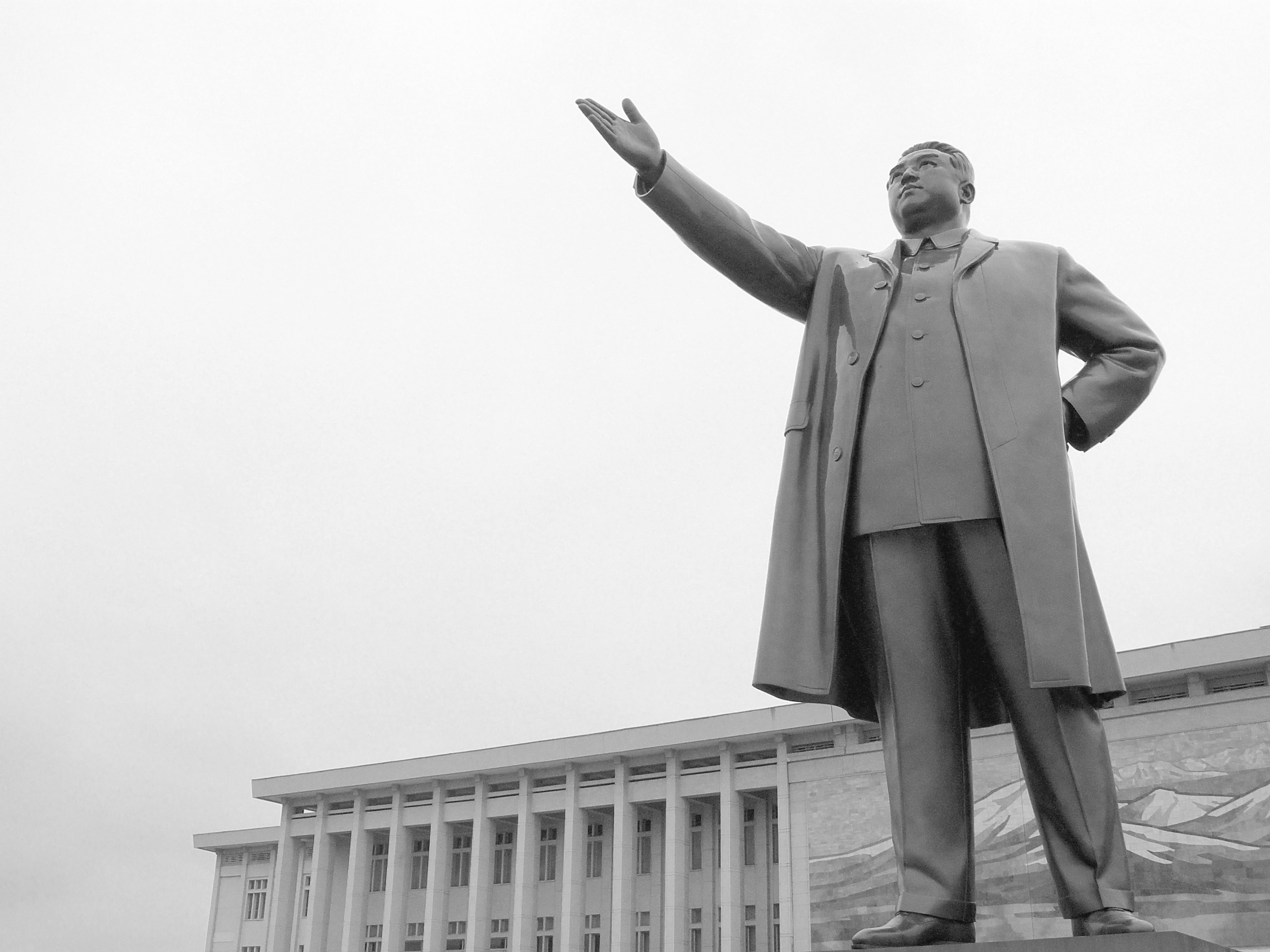 The equivalent of the Holy See to the North Korea people, this mammoth bronze statue of Kim Il Sung was built in 1972 to celebrate his 60th birthday. The mural in the background depicts Baekdusan, the volcanic mountain sacred to Koreans on both sides of the 38th parallel. Visitors are expected to offer flowers and bow before the statue. Visitors will also be instructed to not take cropped shots of the statue in respect to the Great Leader, as he is addressed.